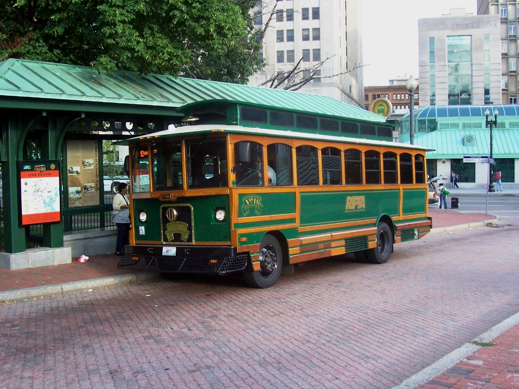 RIPTA Optima Heritage Streetcar #16 at Kennedy Plaza.